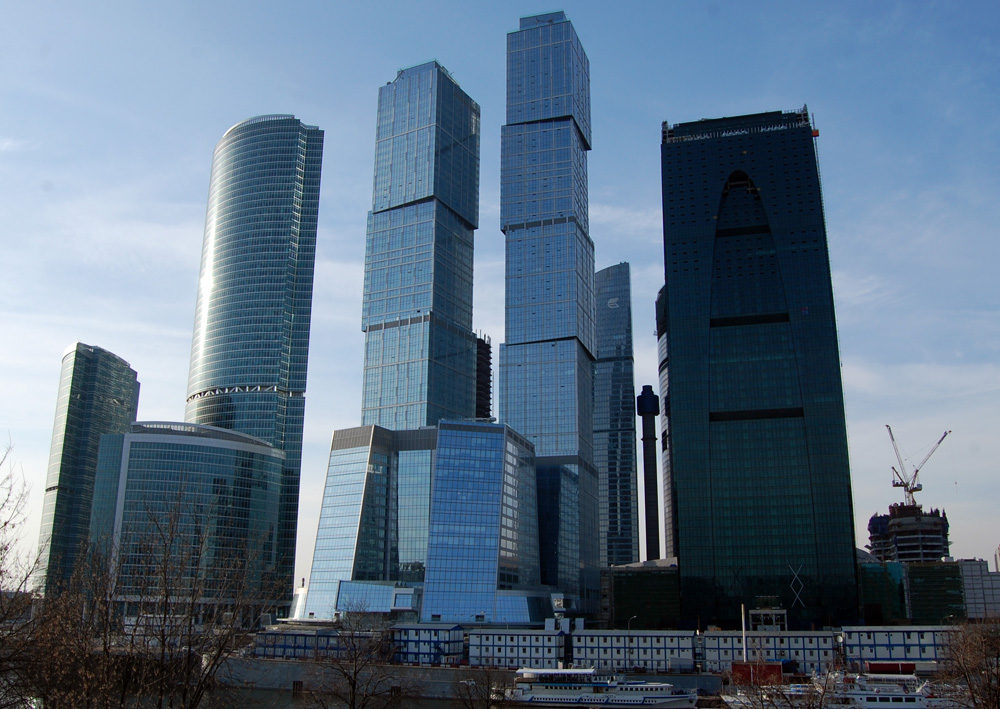 Moscow-City 2010,March